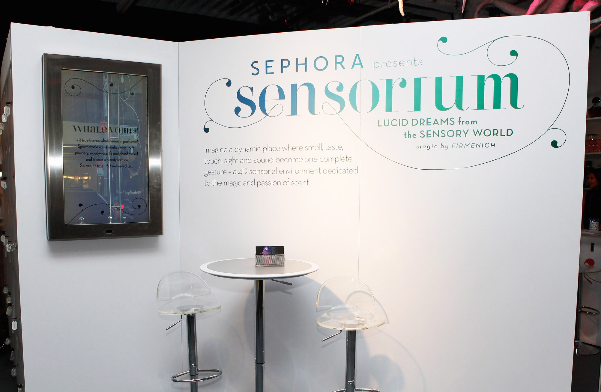 Mirrus Mirror Technology in use at Sephora Sensorium.